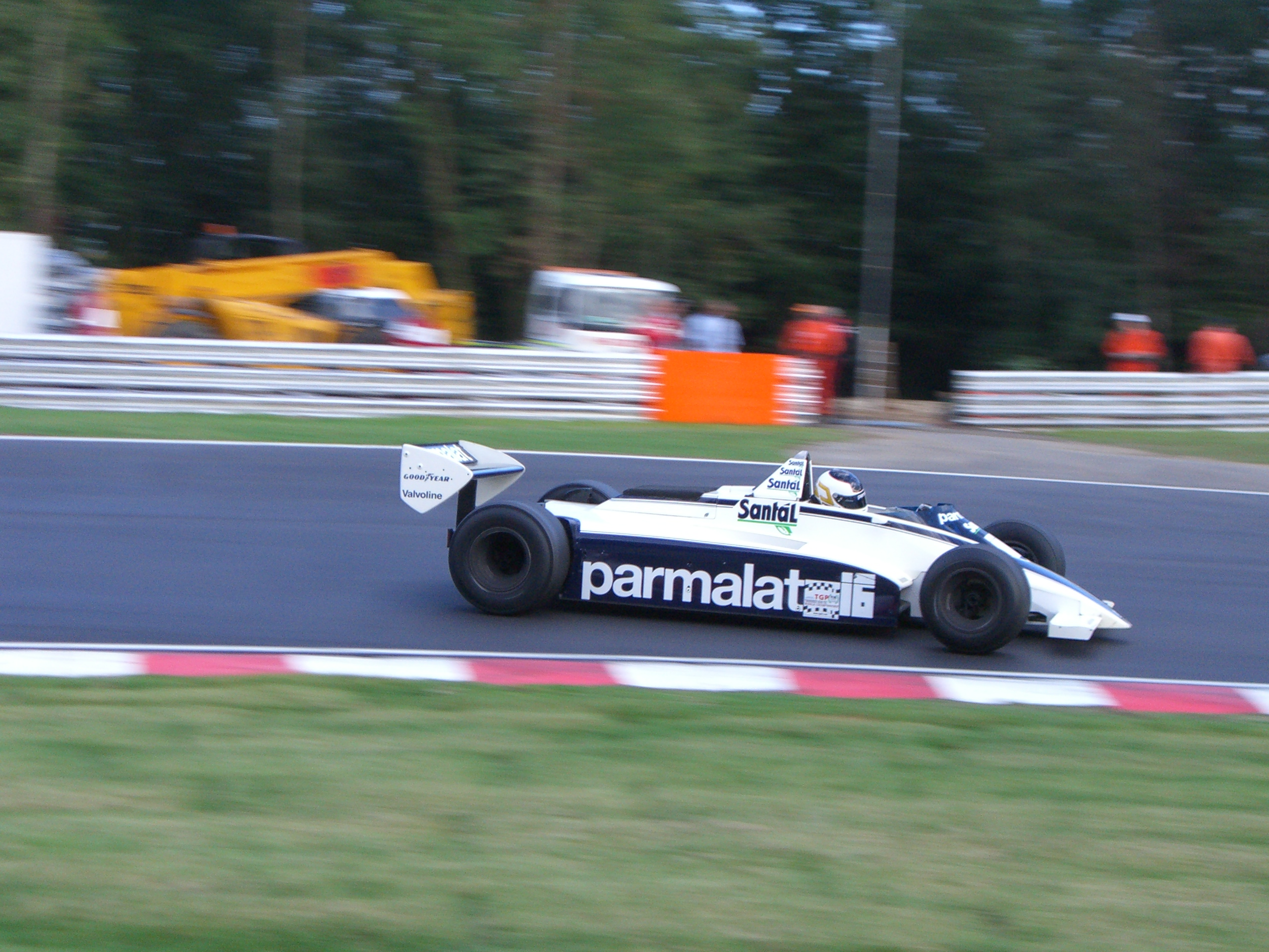 Christian Glasel in a Brabham BT49D